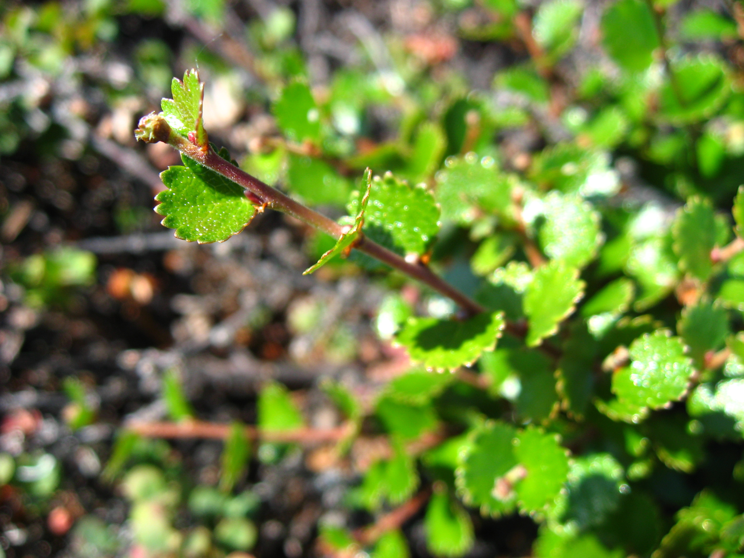 Betula nana photographed on a hike north of the village Upernavik Kujalleq and north-east of the mountain Kingigtoq, Greenland.